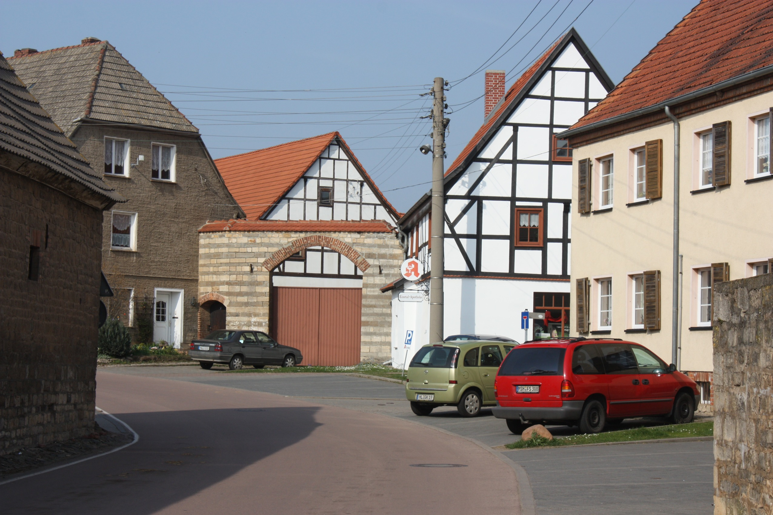 Welbsleben (Arnstein), villagescape